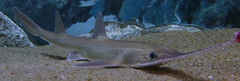 Japanese sawshark, Pristiophorus japonicus